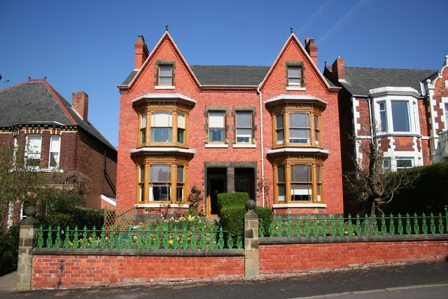 Mr.Straw's House, Notts